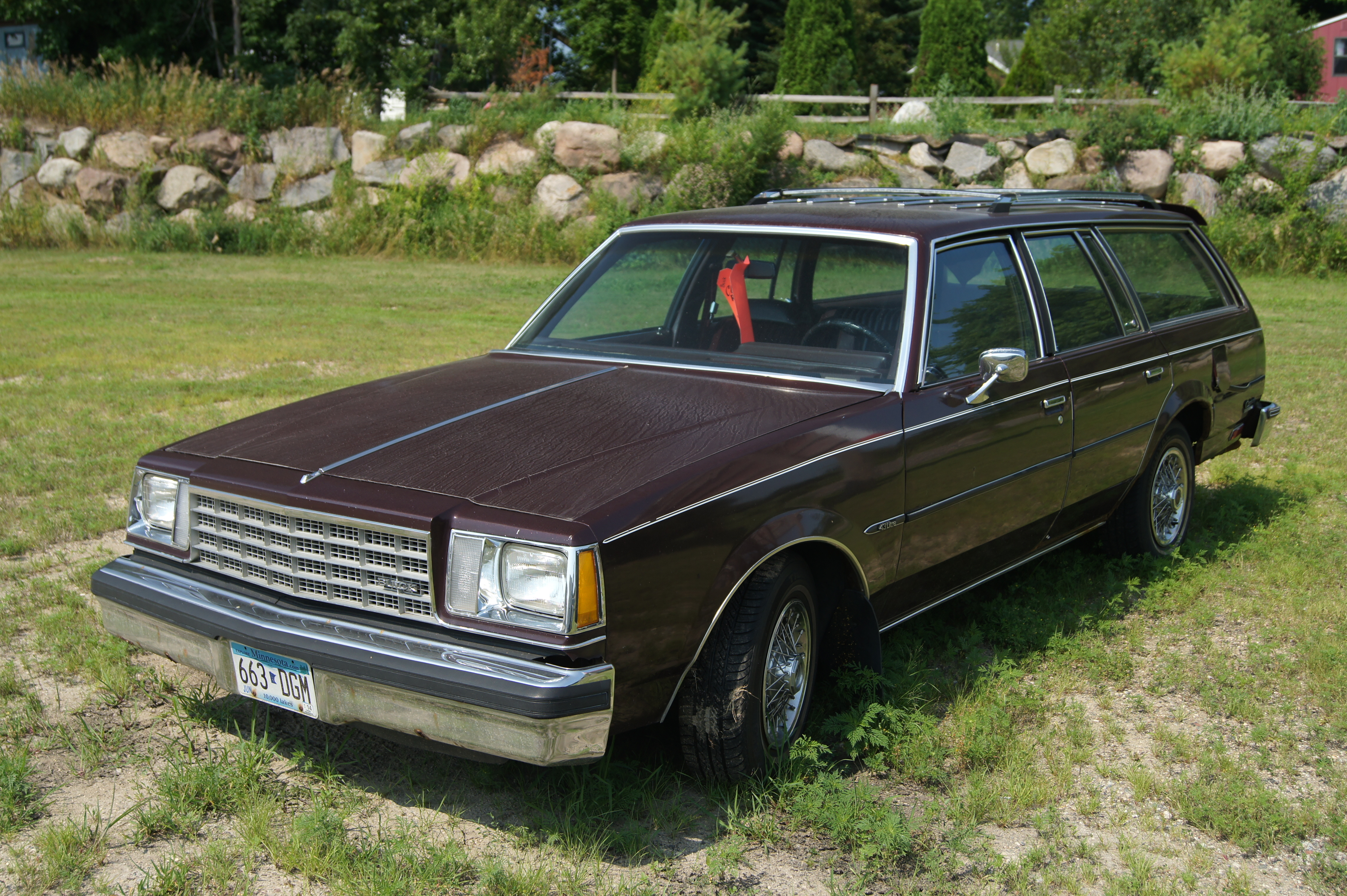 For more of my Car Pictures click the link below